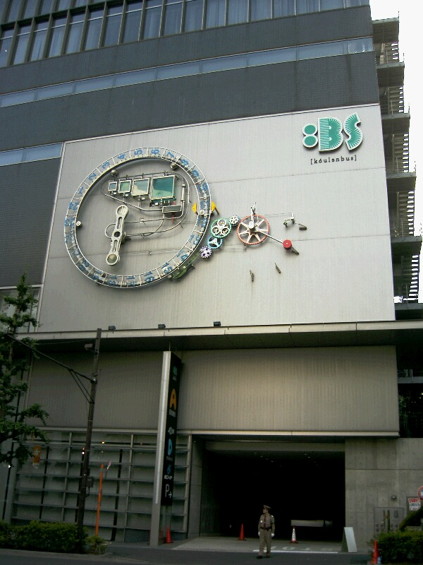 Asahi_Satellite_Broadcasting_Head_Office